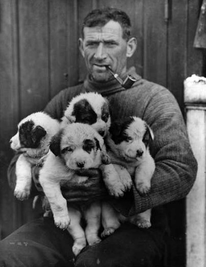 Tom Crean with sleigh dog puppies Roger, Nell, Toby and Nelson, taken during the Shackleton Expedition of 1914–1916